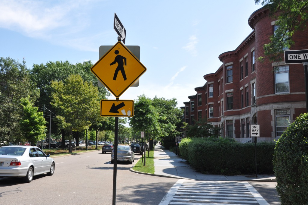 Beacon Street in Brookline, Massachusetts, part of the Beacon Street Historic District.